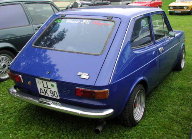 Fiat 127